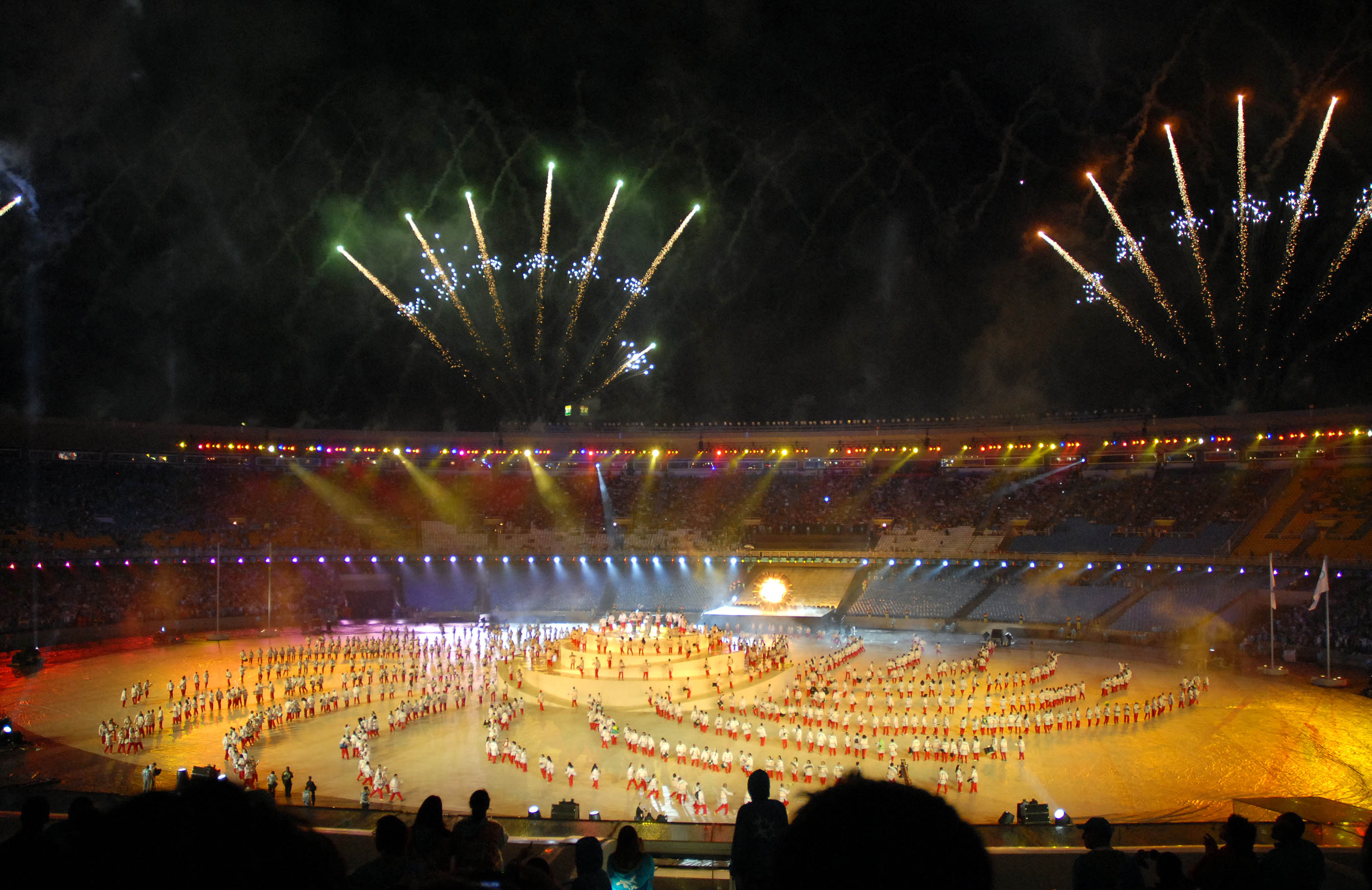 Closing Ceremony of the 2007 Pan American Games in Rio de Janeiro